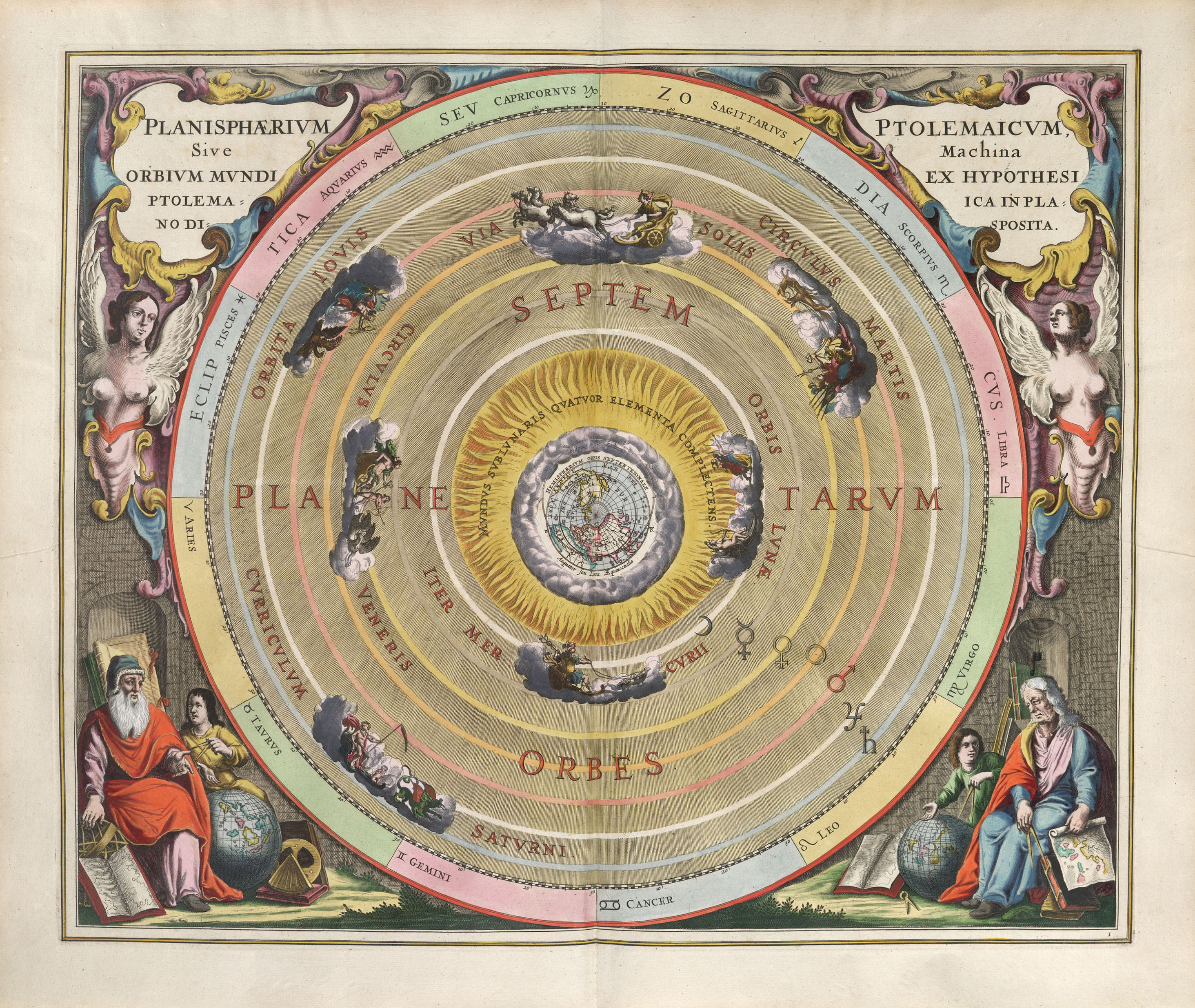 Andreas Cellarius: Harmonia macrocosmica seu atlas universalis et novus, totius universi creati cosmographiam generalem, et novam exhibens. Plate 1. PLANISPHÆRIVM PTOLEMAICVM, Sive Machina ORBIVM MVNDI EX HYPOTHESI PTOLEMAICA IN PLANO DISPOSITA - The planisphere of Ptolemy, or the mechanism (i.e. the movements) of the heavenly orbits following the hypothesis of Ptolemy laid out in a planar view.